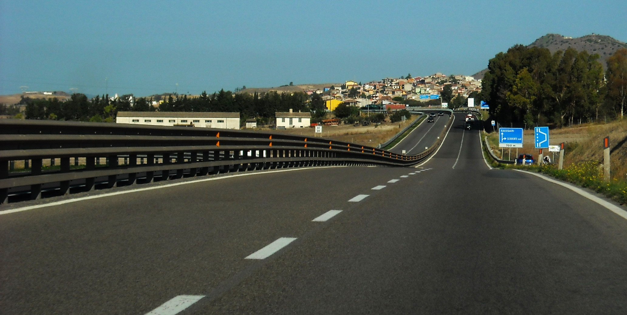 ss131 Carlo Felice Sardinia near Serrenti